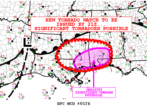 Mesoscale convective outlook highlighting the potential for significant tornadoes in Louisiana, Mississippi, Alabama and Florida during a tornado outbreak on February 23, 2016.